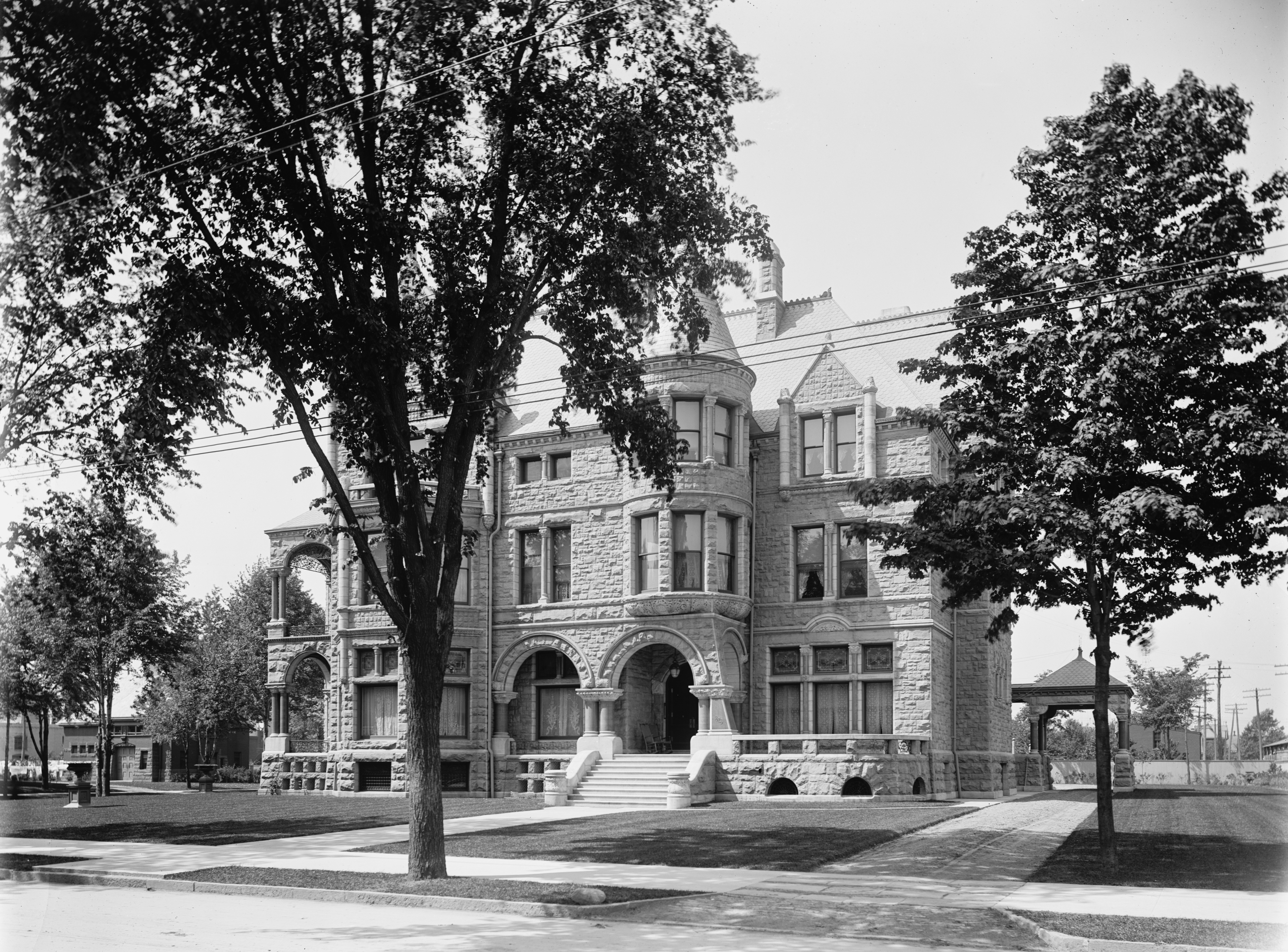 The David Whitney House in midtown Detroit, Michigan (c. 1900s). Stone mansion built in 1894 in the Romanesque revival style. Contributing property to the Cultural Center Historic District, a Michigan State Historic Site, and on the National Register of Historic Places.